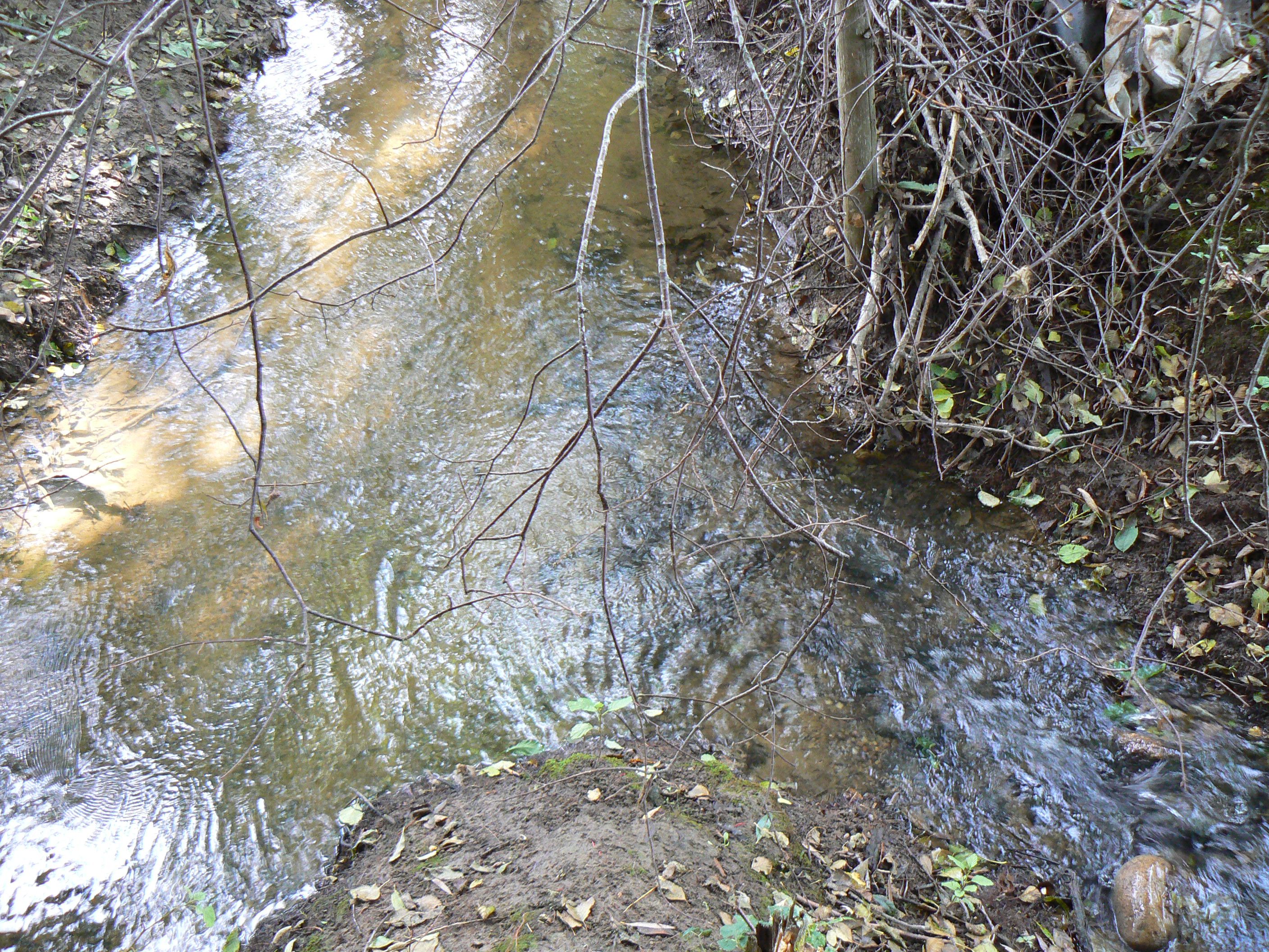 Confluence Karapolis - Malūndaubė